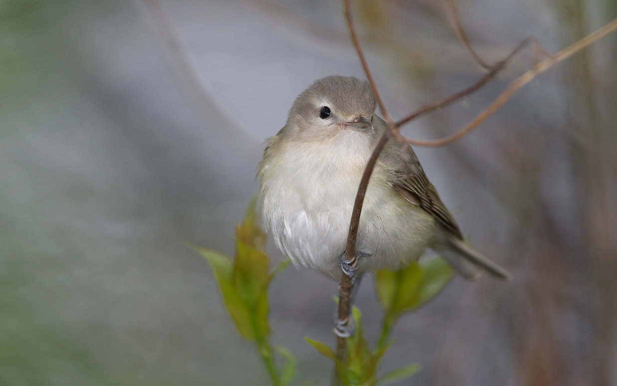 Warbling vireo